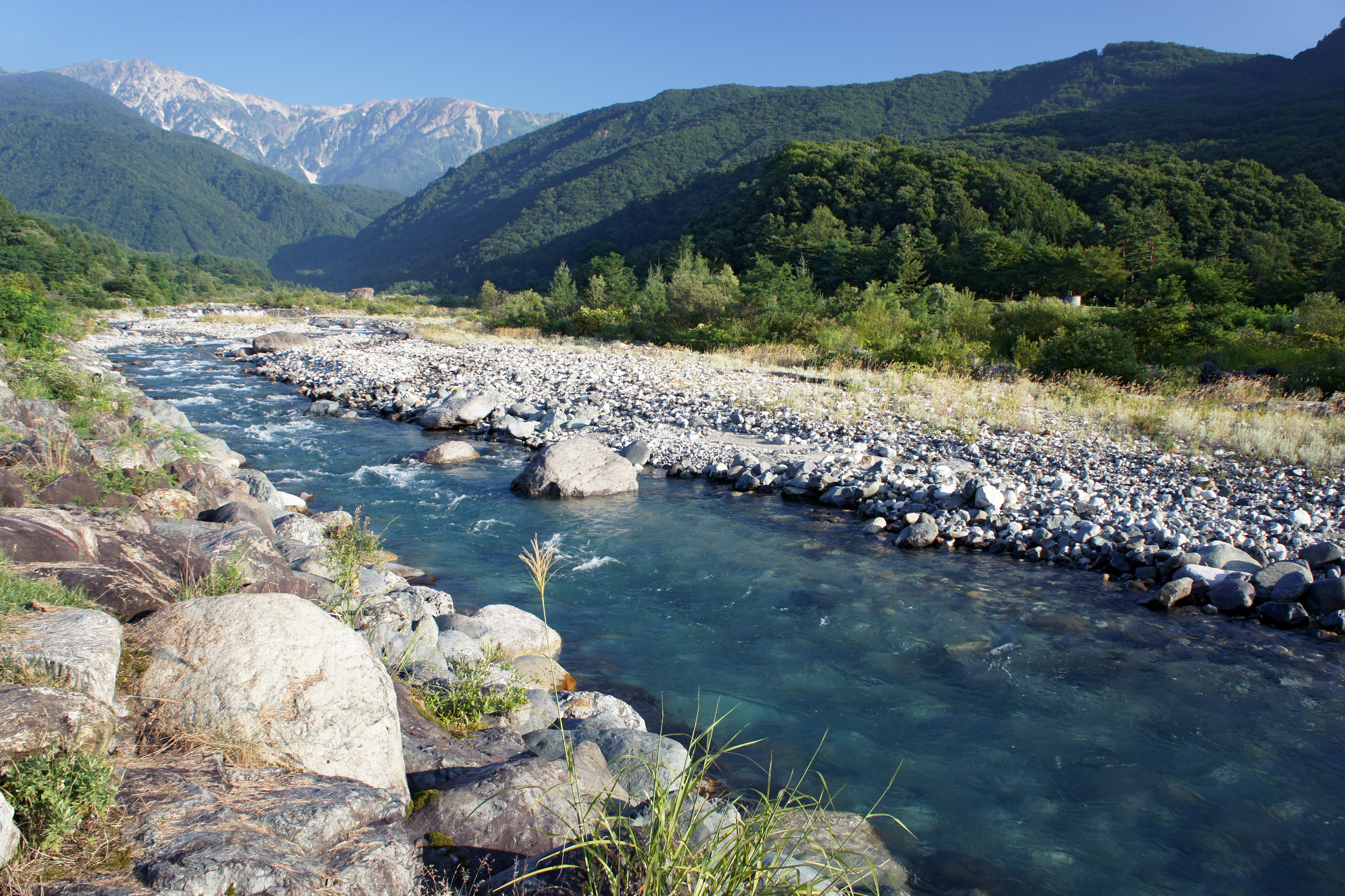 Matsukawa River at Hakuba, Nagano prefecture, Japan.